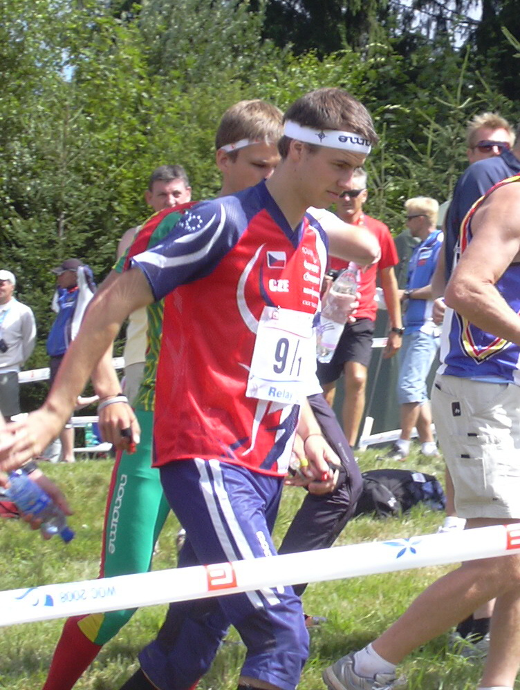 World Orienteering Championships 2008 in Olomouc, Czech Republic. On photo Jan Procházka.